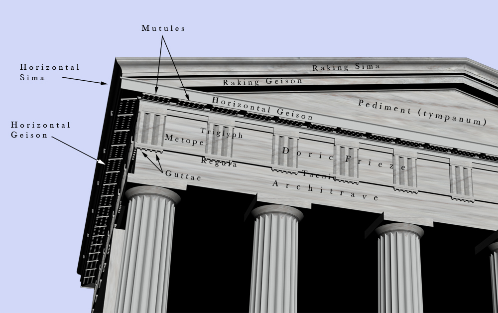 Labeled image of the Doric order entablature J. Matthew Harrington, self-made image